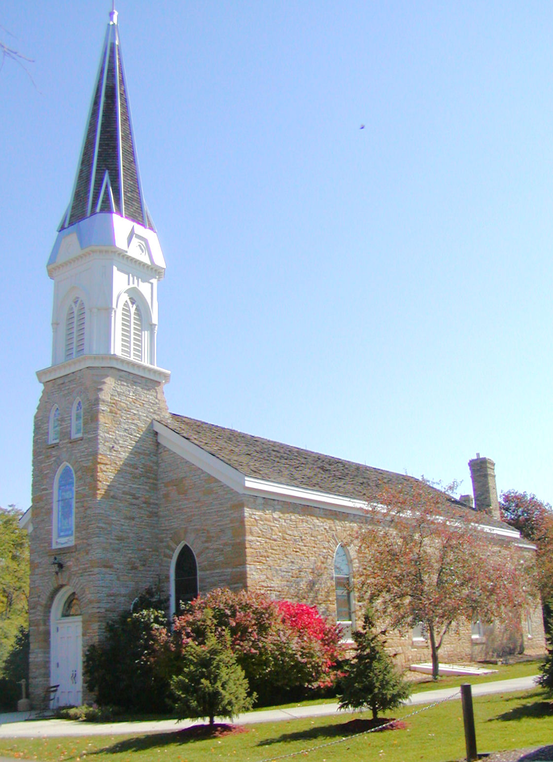 St. Peter's Church, Mentota, Minnesota